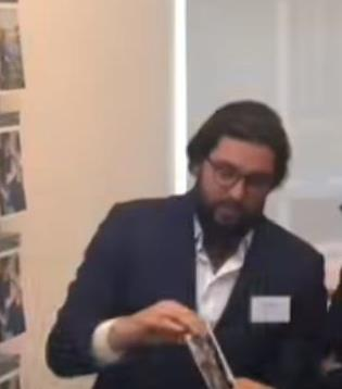 Dutch/Turkish photographer Ahmet Polat, June 2016